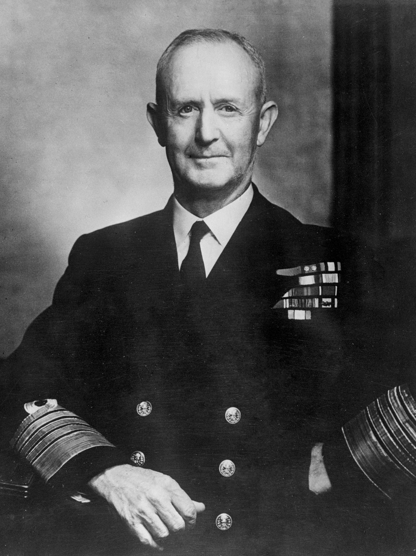 Andrew Cunningham This photograph is strikingly similar to one taken by Yousuf Karsh ("Karsh of Ottawa") which appears facing page 50 in his book of portraits of wartime leaders "Faces of Destiny" published 1947 London, etc., Chicago and New York. Admiral Cunningham adopts an identical pose (only facing slightly to his right in the "Faces of Destiny" portrait). Other details, including the background, are identical suggesting that this photograph was taken by Yousuf Karsh on the same occasion. His description on page 50 of the circumstances very strongly supports that suggestion, explaining that the photographic session at The Admiralty in London was necessarily a short one as Admiral Cunningham was at the time en route to Buckingham Palace for his formal appointment as First Sea Lord by King George VI.